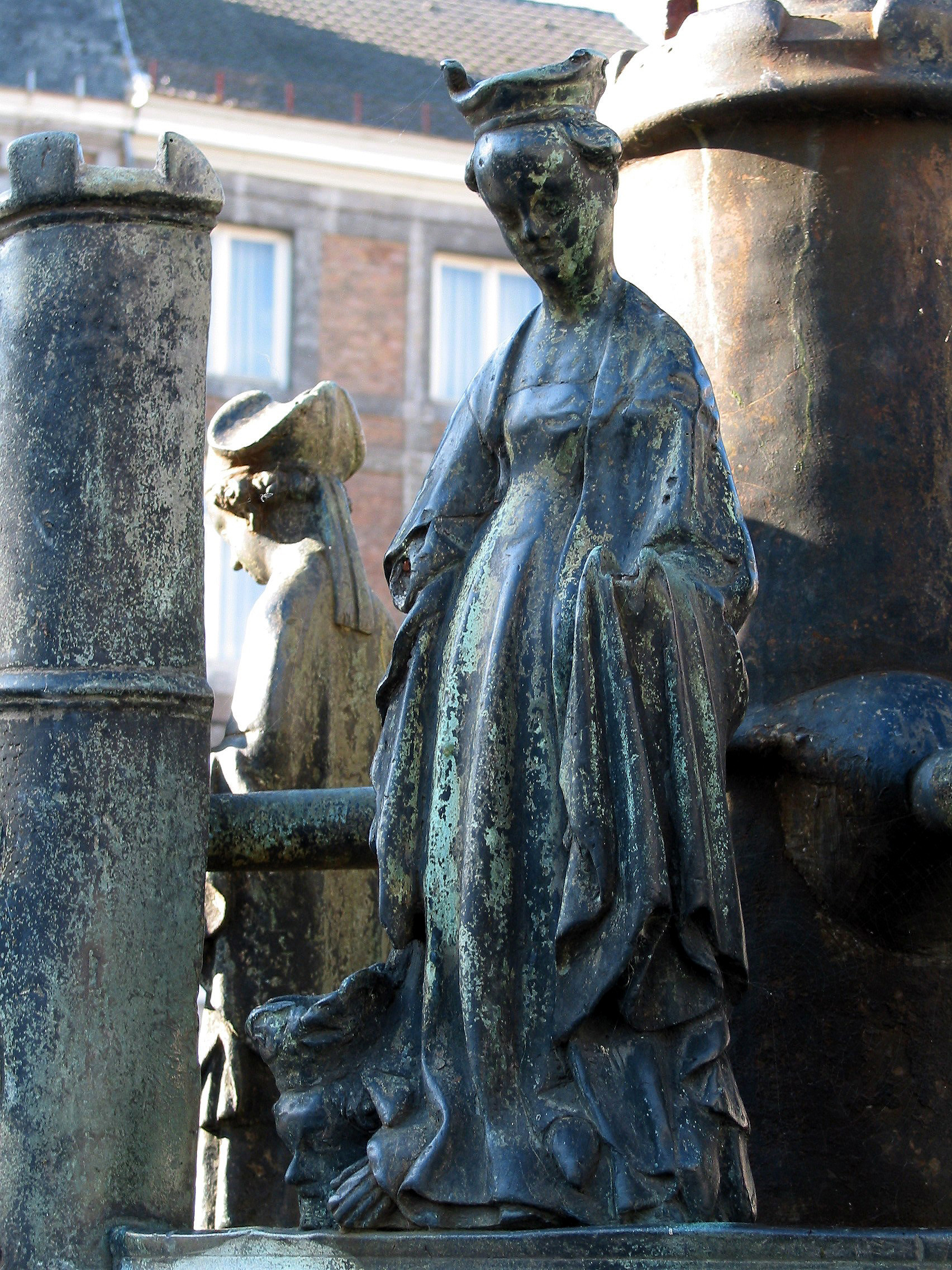 Huy (Belgium), small fine bronze of Saint Catherine (1597) - upper part of the fountain "Li bassinia" (XV/XVIIIth centuries).